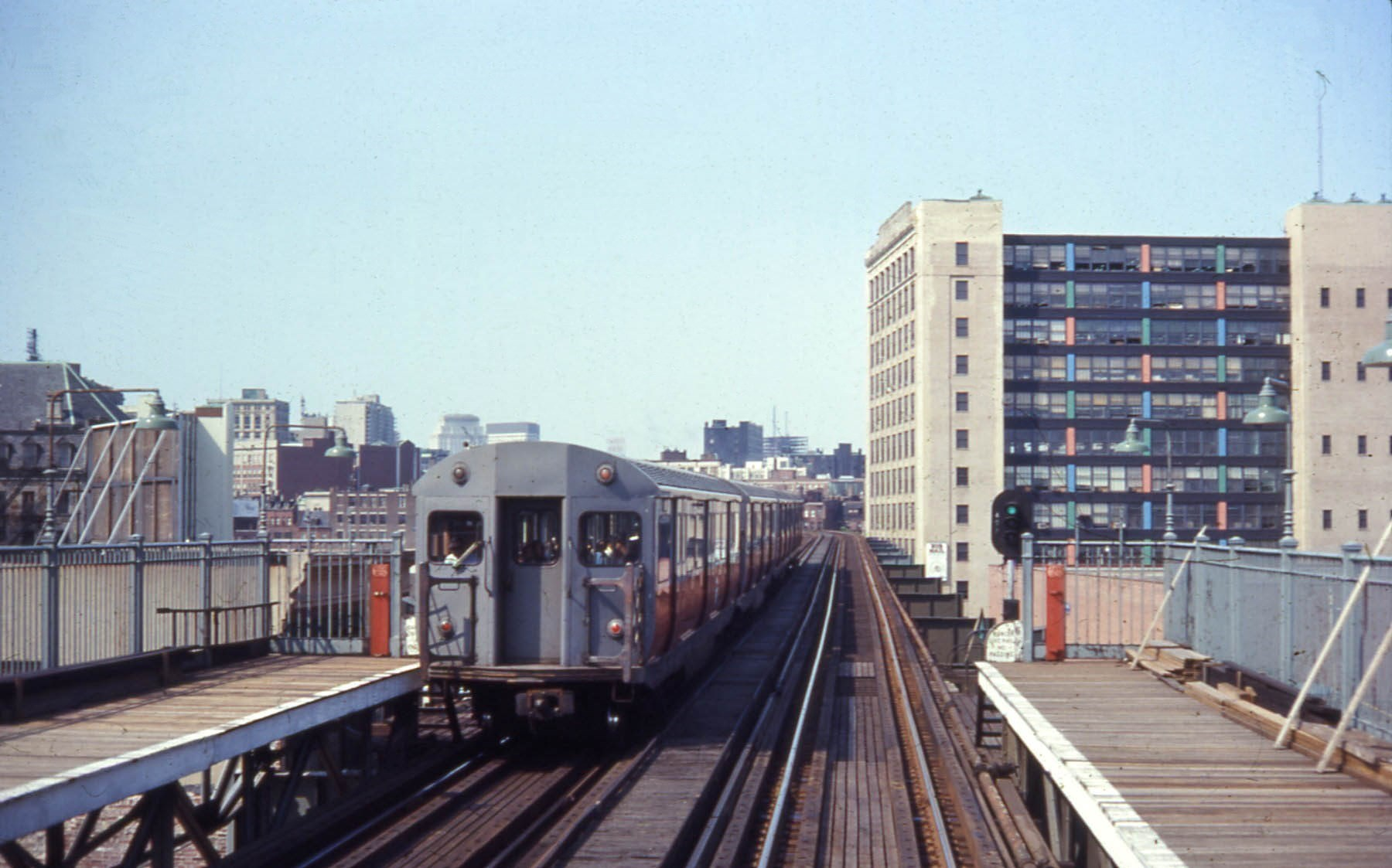 An outbound Main Line El (Orange Line) train enters Dover station in 1967